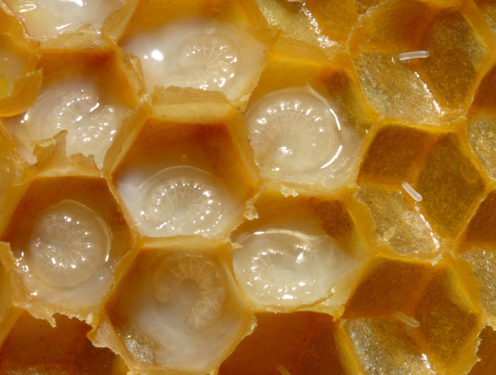 Honeycomb of honey bees with eggs and larvae. The walls of the cells have been removed. The larvae (drones) are about 3 or 4 days old.